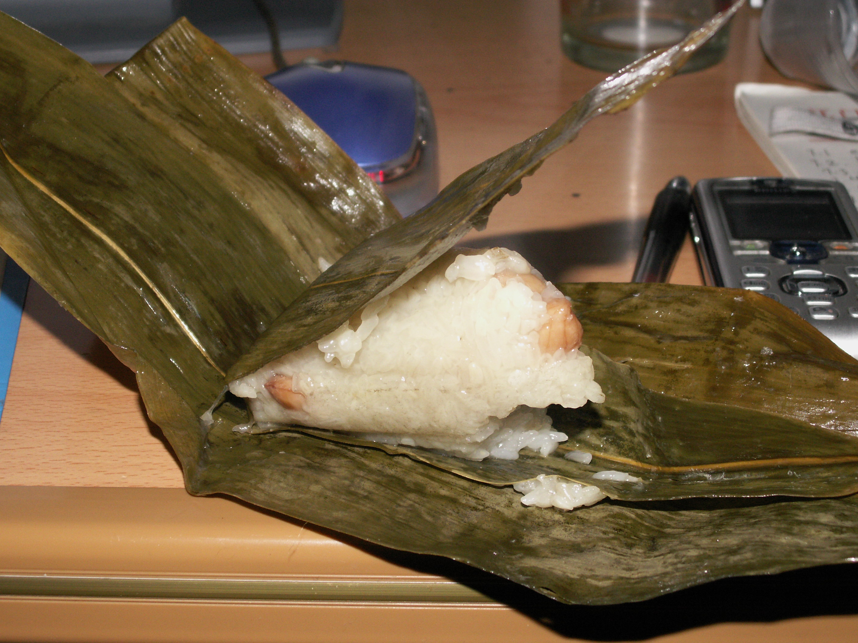 One kinds of Chinese food